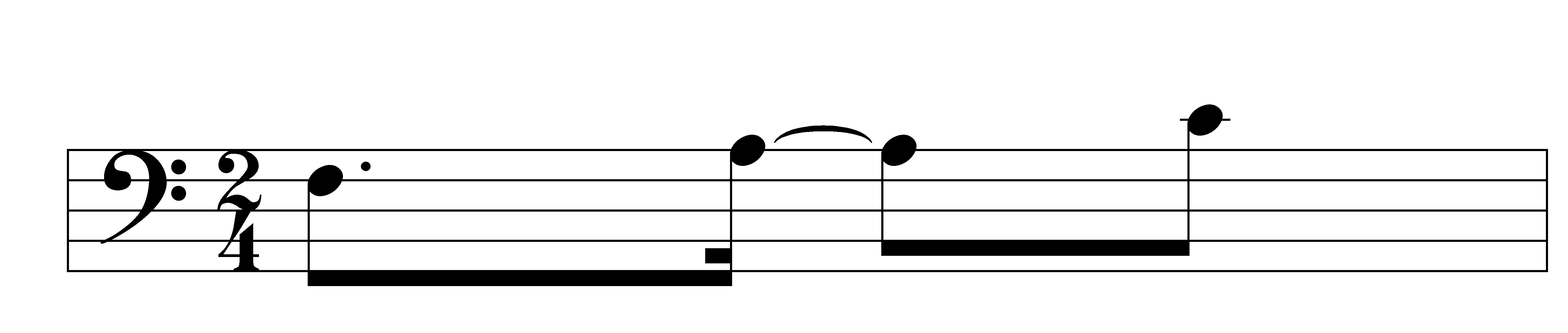 A typical bass line used in Cuban son music. Rhythmically, the figure is known as tresillo.